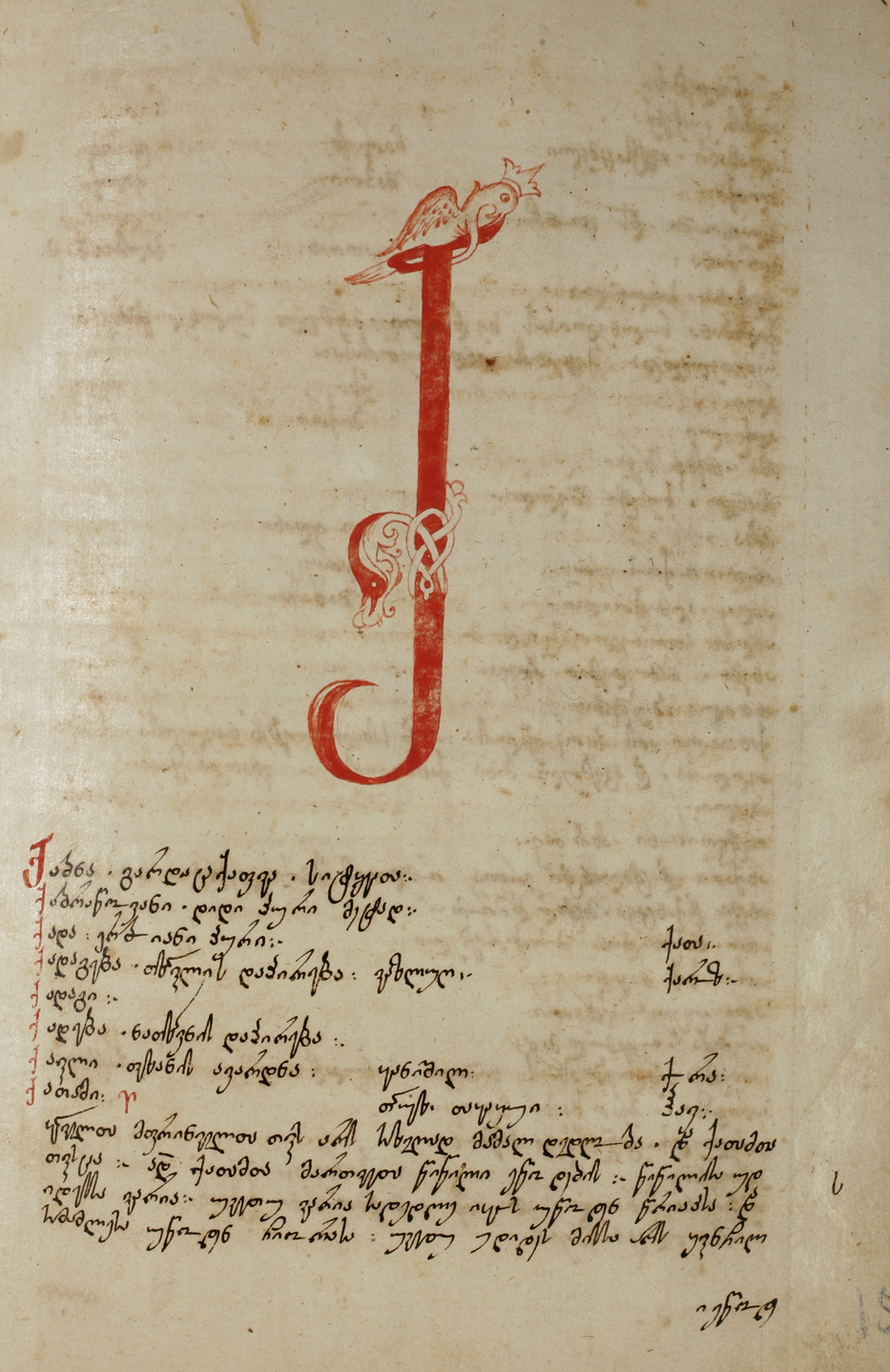 Georgian Letter ქ